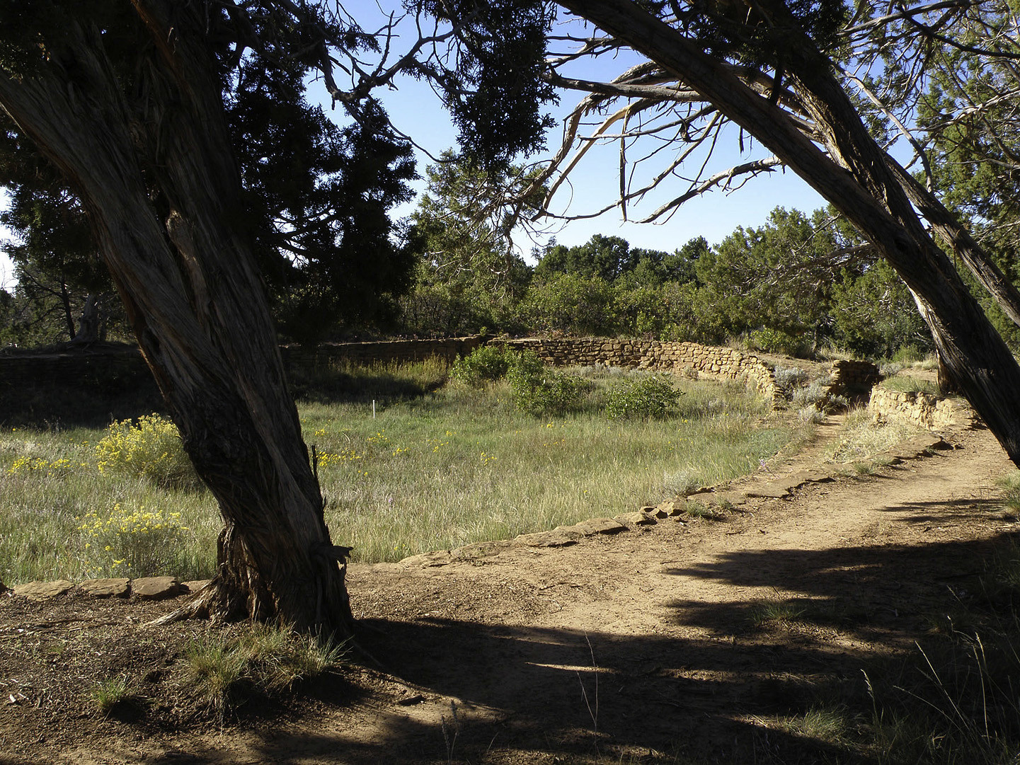 So called Farview reservoir, formerly called Mummy Lake at Mesa Verde National Park, Colorado USA. The structure was thought to be a reservoir to collect runoff for irrigation and drinking water. Recent research disputes this interpretation and identifies the structure as outdoor ceremonial space.